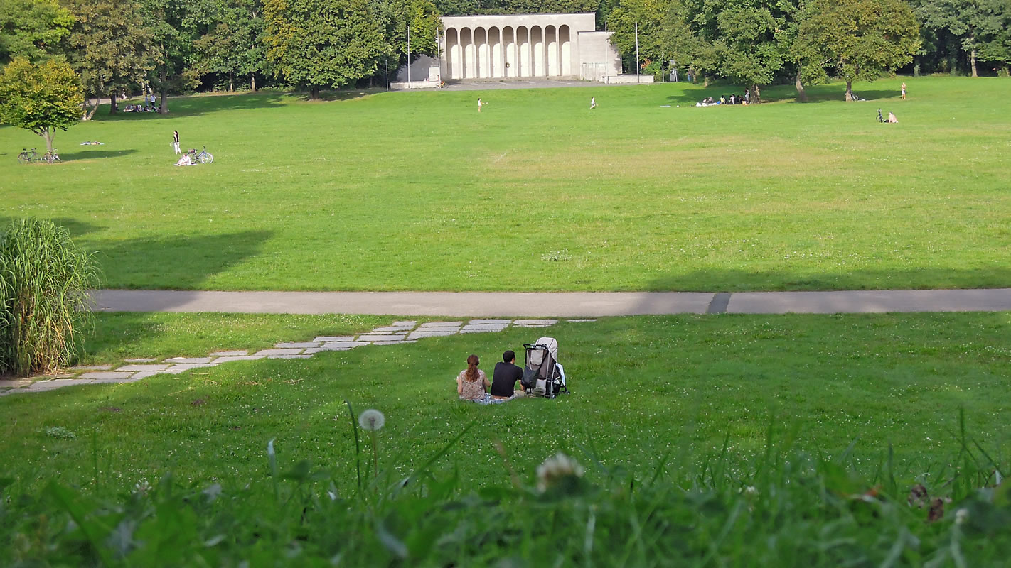 View onto Luitpoldhain and Ehrenhalle, Nuremberg 2011.